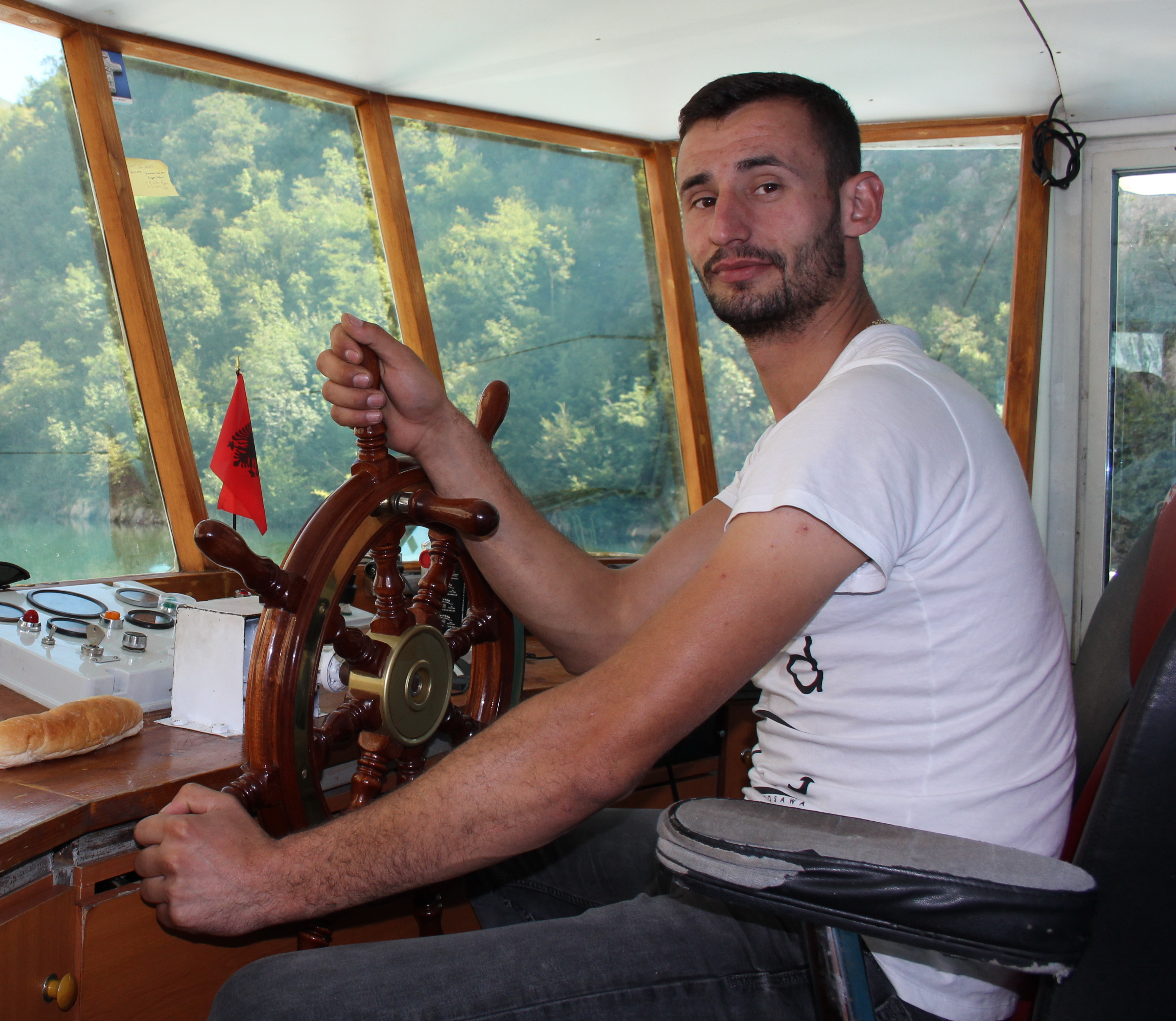 Chief of the car ferry at Lake Comnai in Albania at the wheel of the ferry